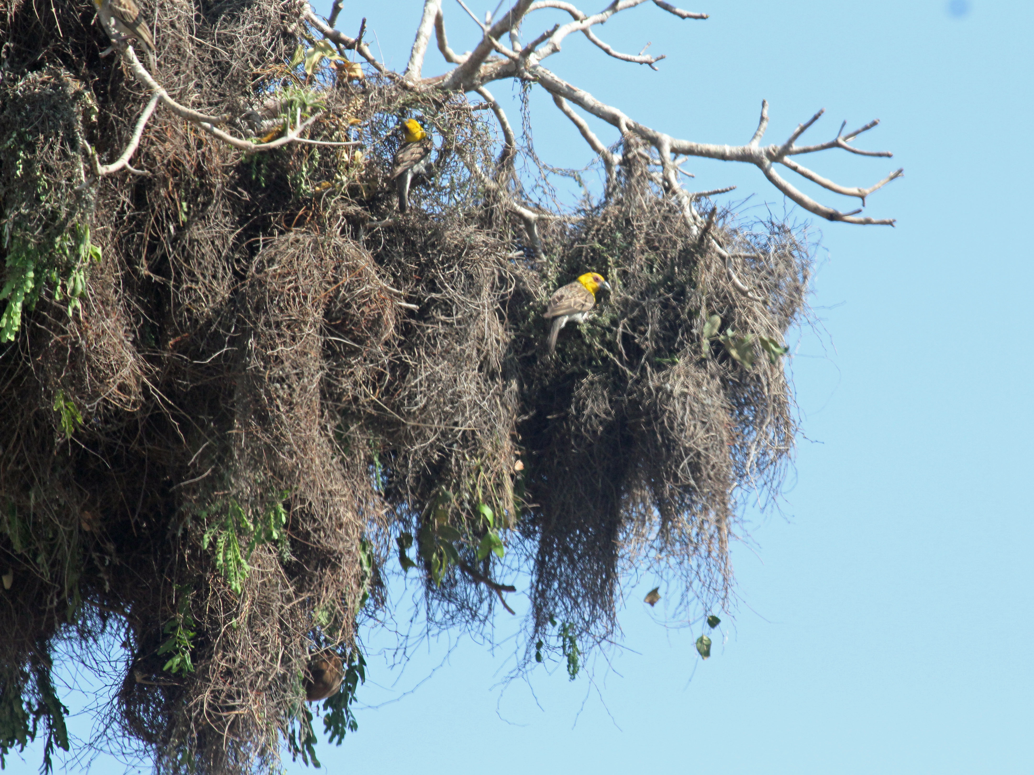 Sakalava Weaver (Ploceus sakalava) nests near the Avenue of Baobabs in Madagascar. Two make Sakalava Weavers are also visible.